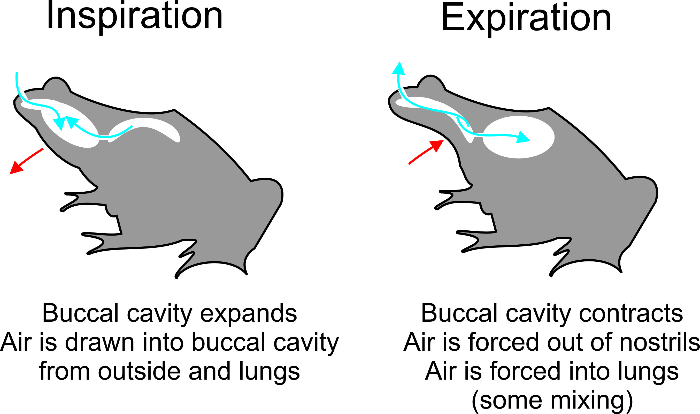 Diagram of the stages of buccal pumping when a two-stroke mode is used